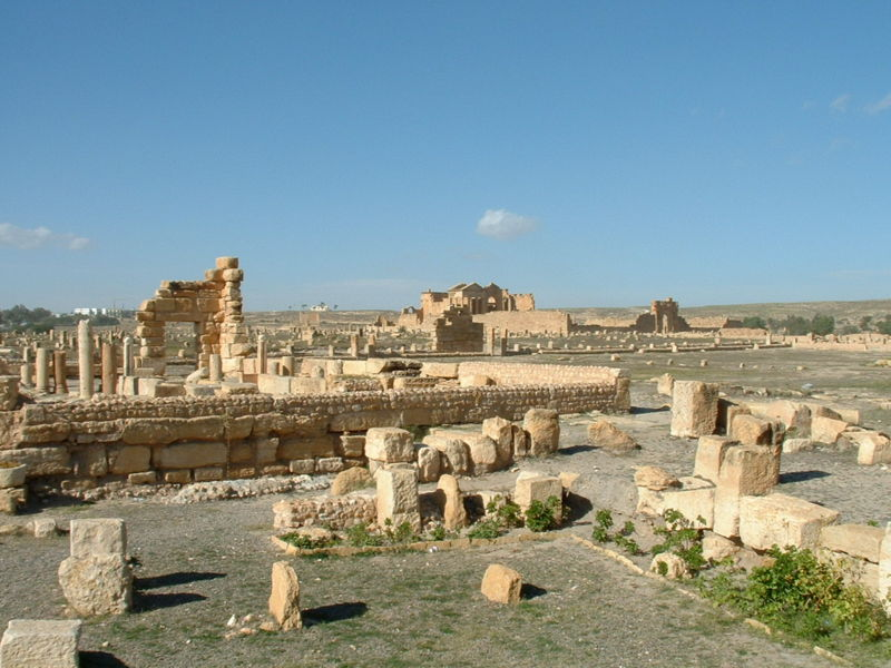 Personal photograph taken on the site of Sbeïtla (Tunisia). On the left you can see the entrance of a Byzantine church, in the centre the acropolis, and on the right the triumphal arch